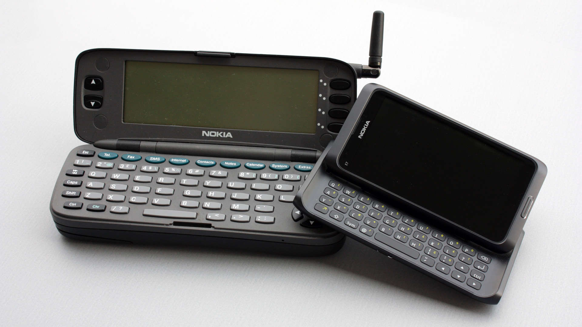 Nokia 9000 Communicator (1996) beside the new Nokia E7 (2010).